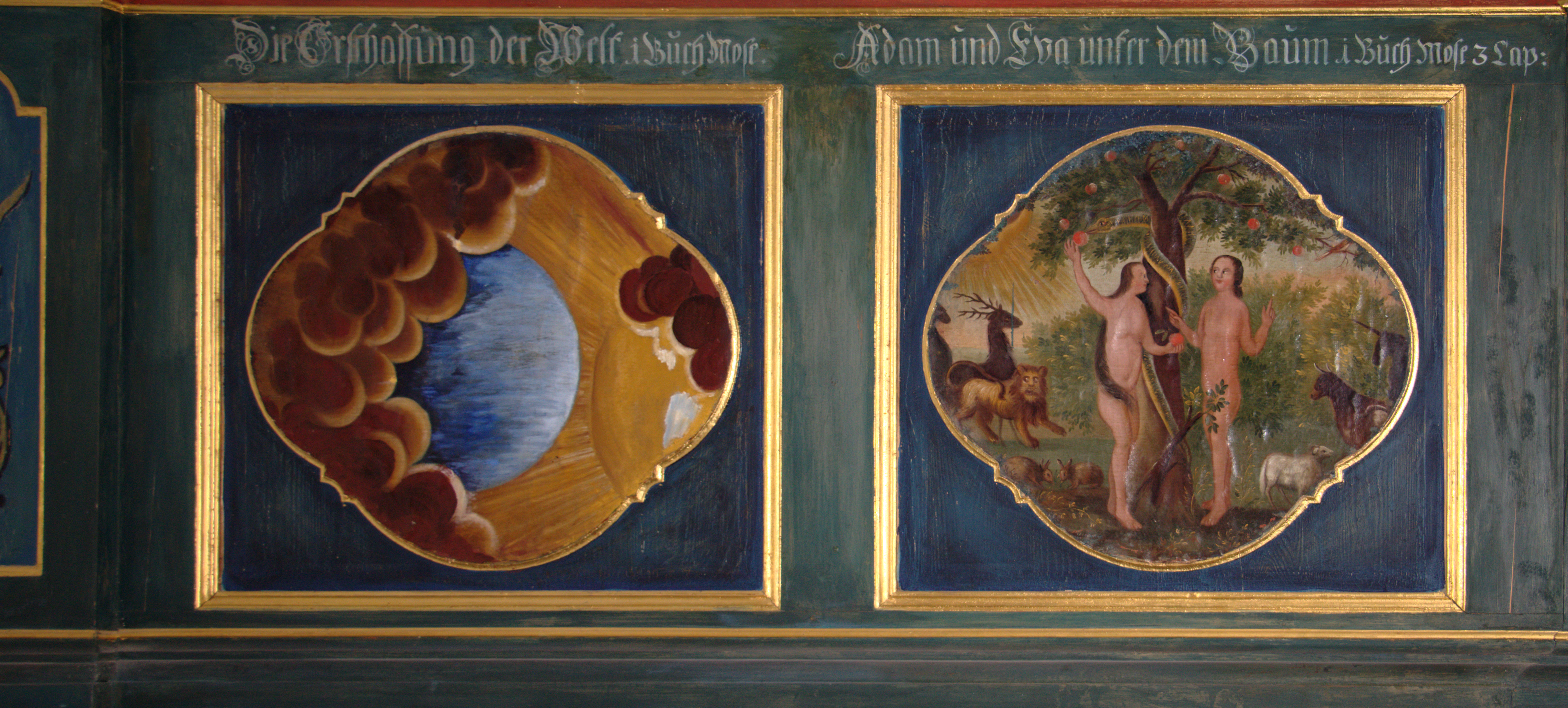 Protestant Church (Oil Paintings "Die Erschaffung der Welt Adam","Adam und Eva unter dem Baum") in Freienseen, Laubach, Hessen, Germany